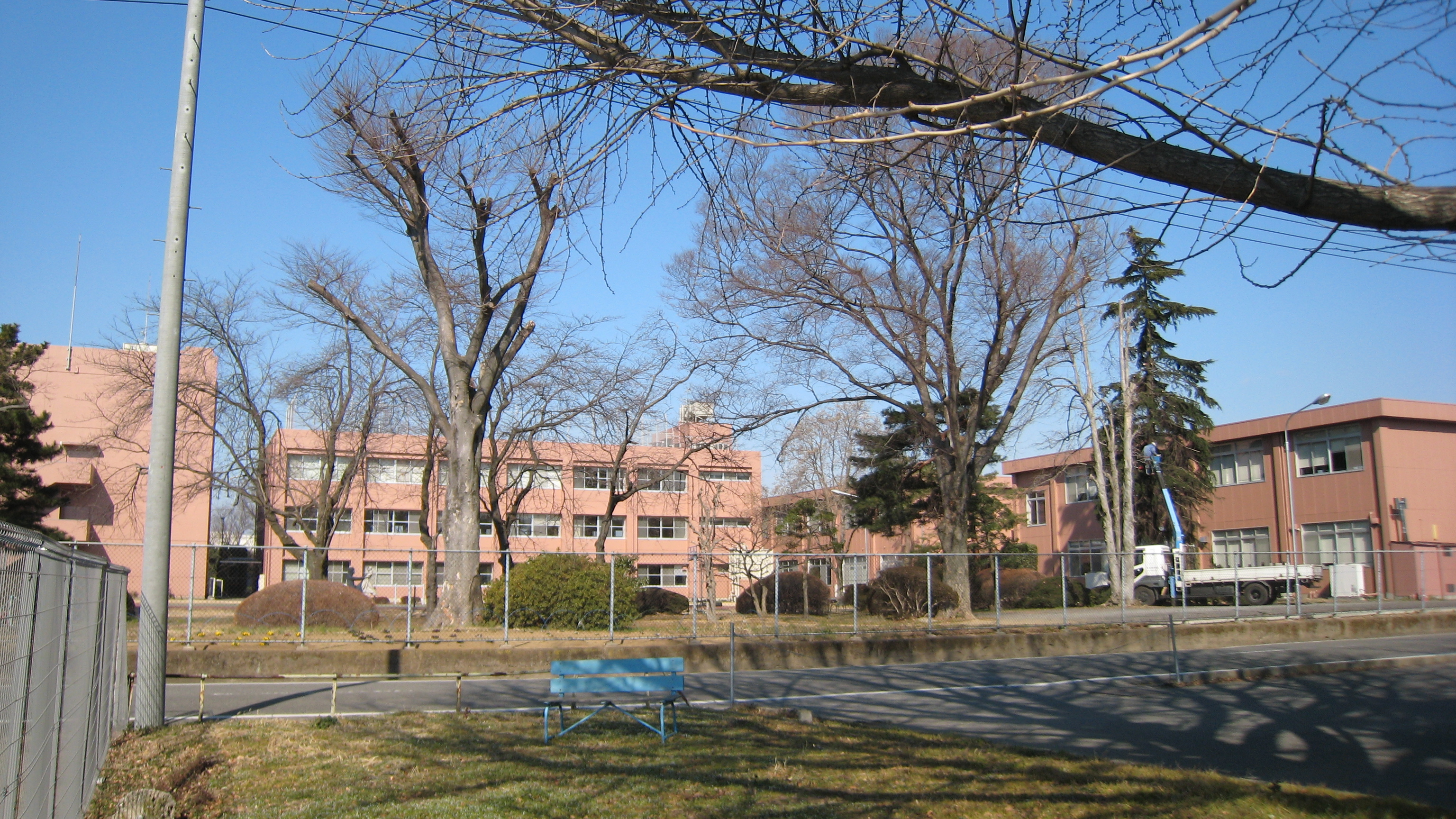 Oizumi College of Social Workers in Oizumi Town, Gunma Prefecture, Japan